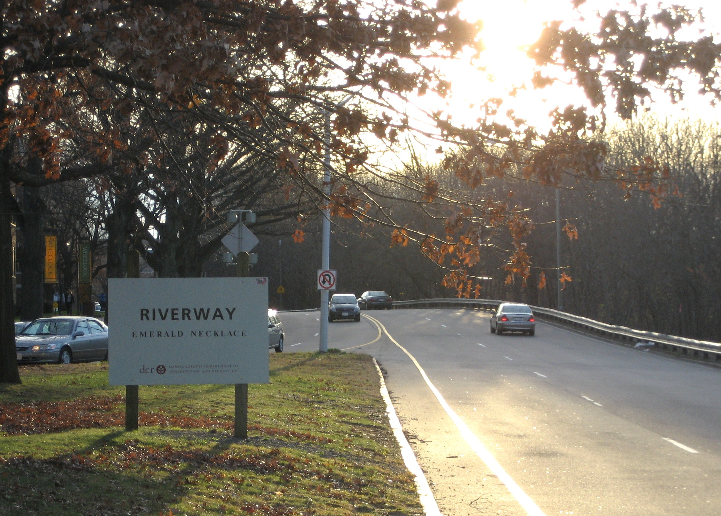 Start of Riverway at the intersection of Park Drive in Boston